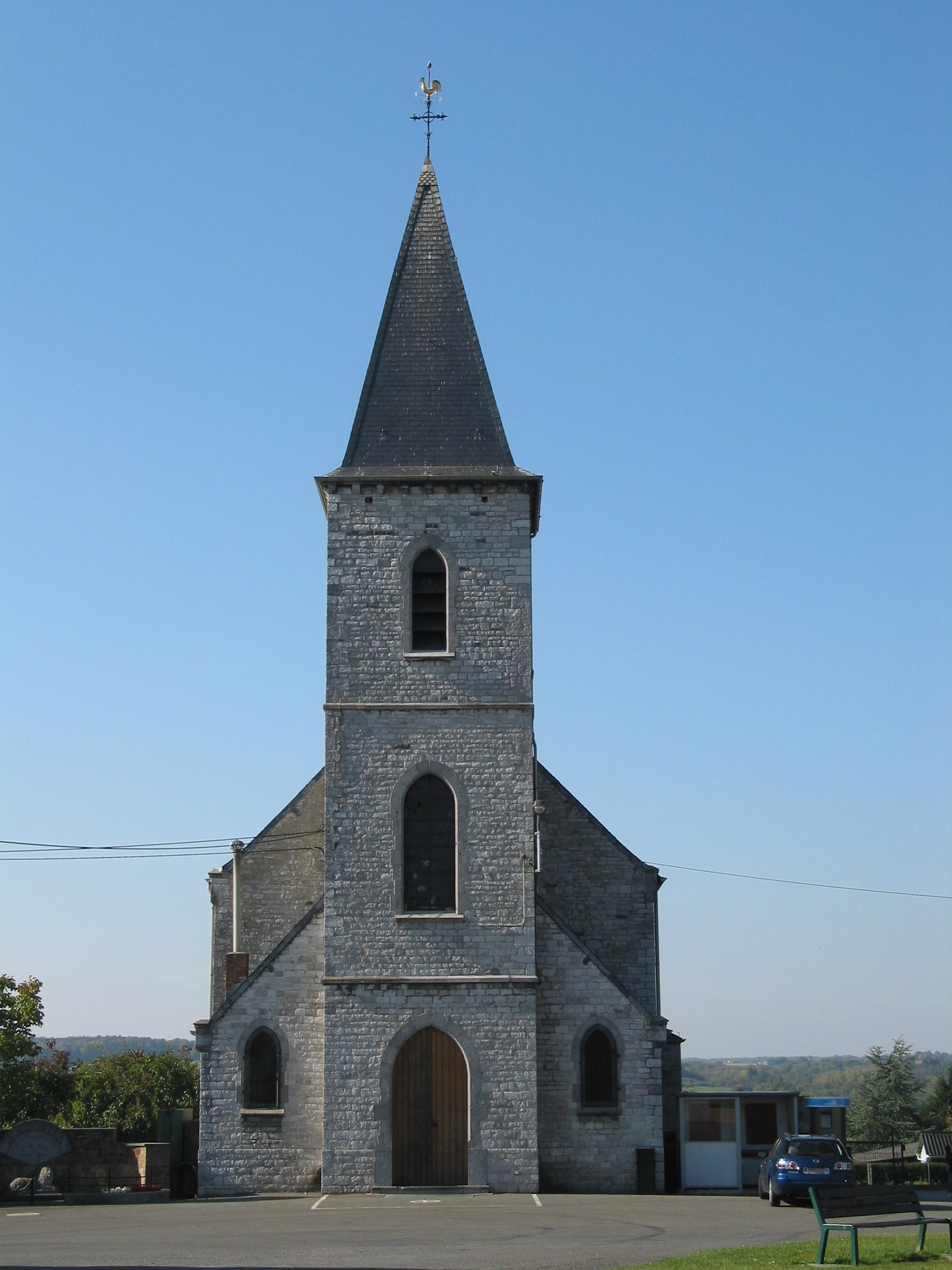 Haut-le-Wastia (Belgium), the St. Jacques le Majeur church (1892-1893).